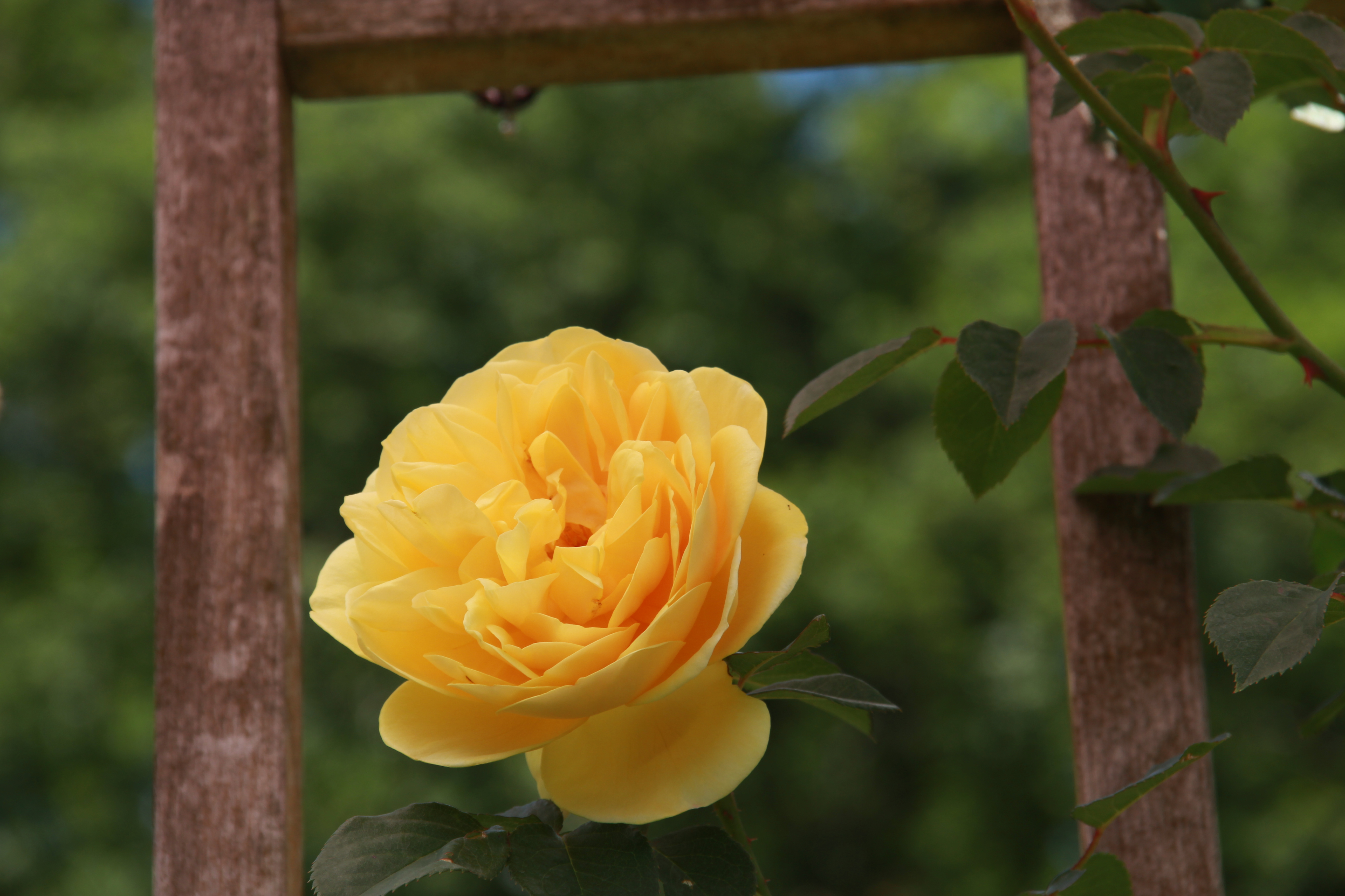 Rosa 'Graham Thomas'